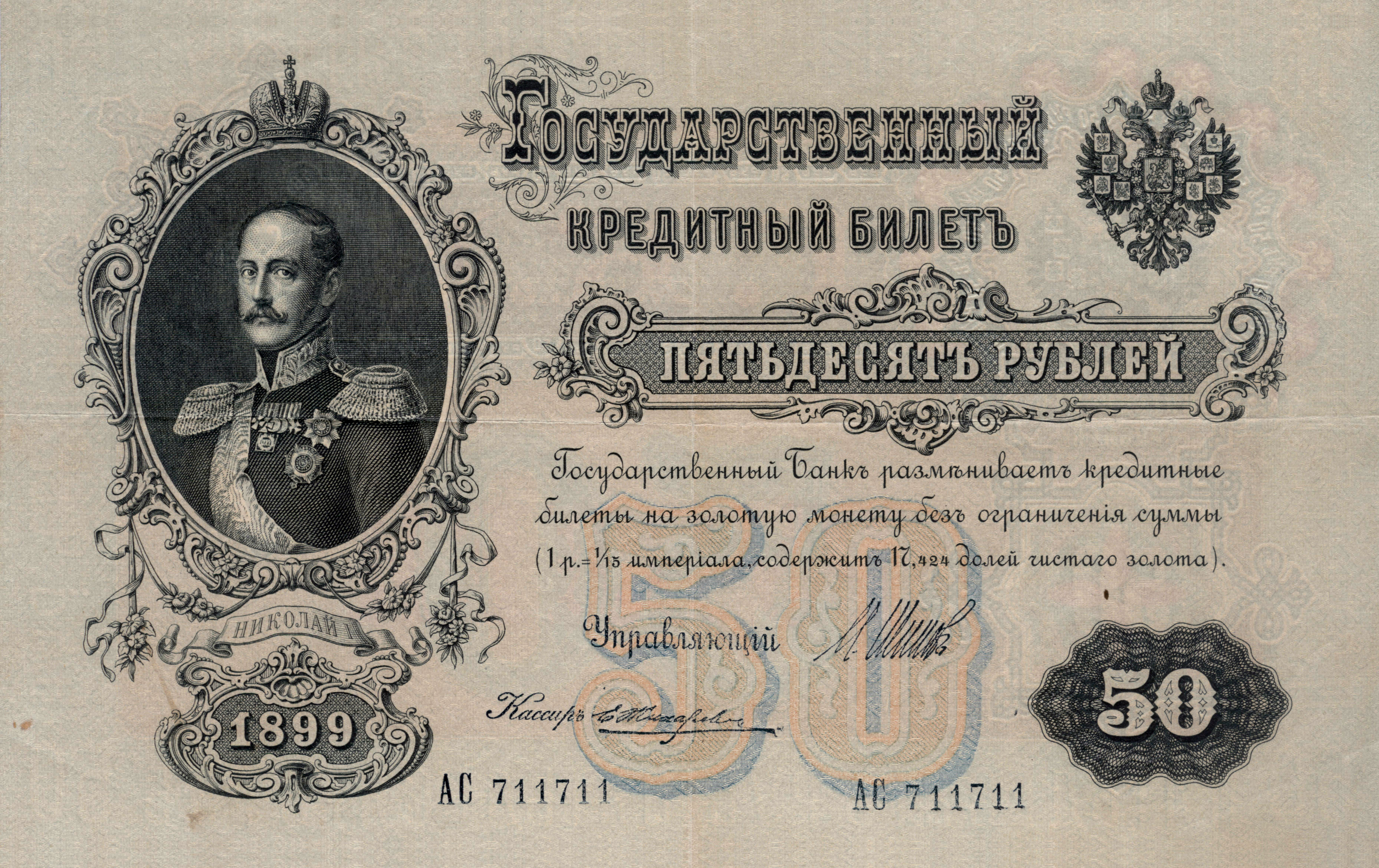 Russian Empire banknote 50 rubles. Version of 1899 year. F